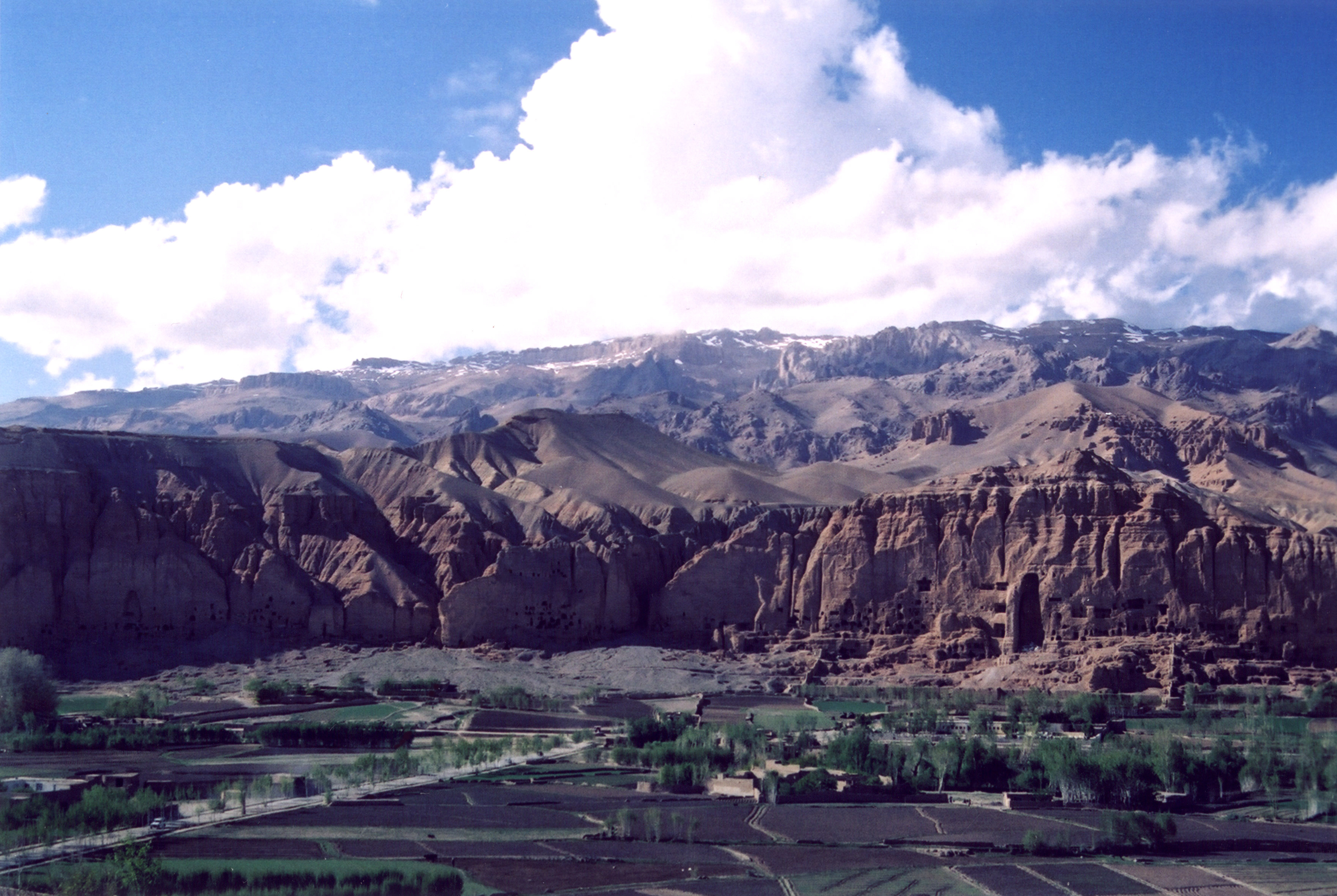 Cultural Landscape and Archaeological Remains of the Bamiyan Valley (Afghanistan)